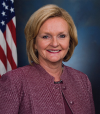 Claire McCaskill, U.S. Senator.